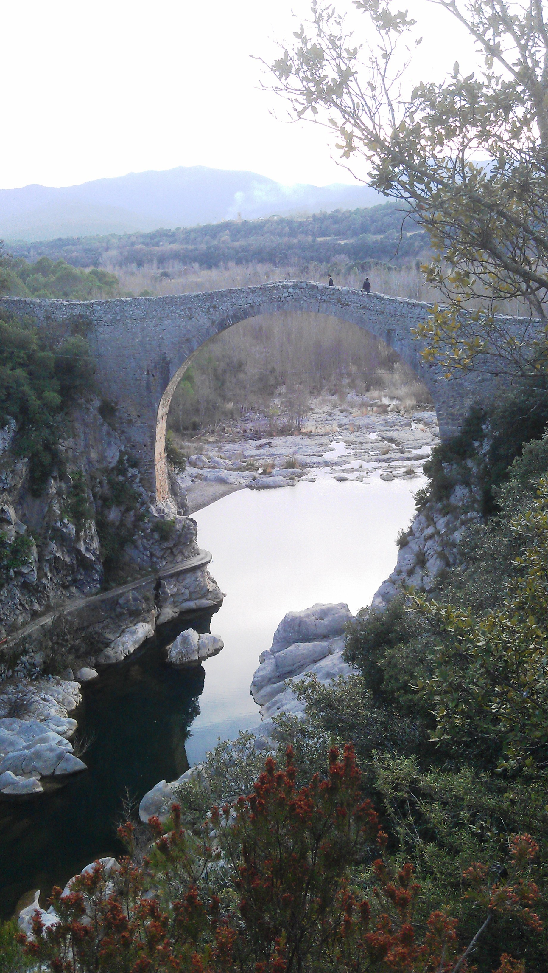 Romanic Bridge at Llierca (near by Montagut, Catalonia, Spain, 14. Century)